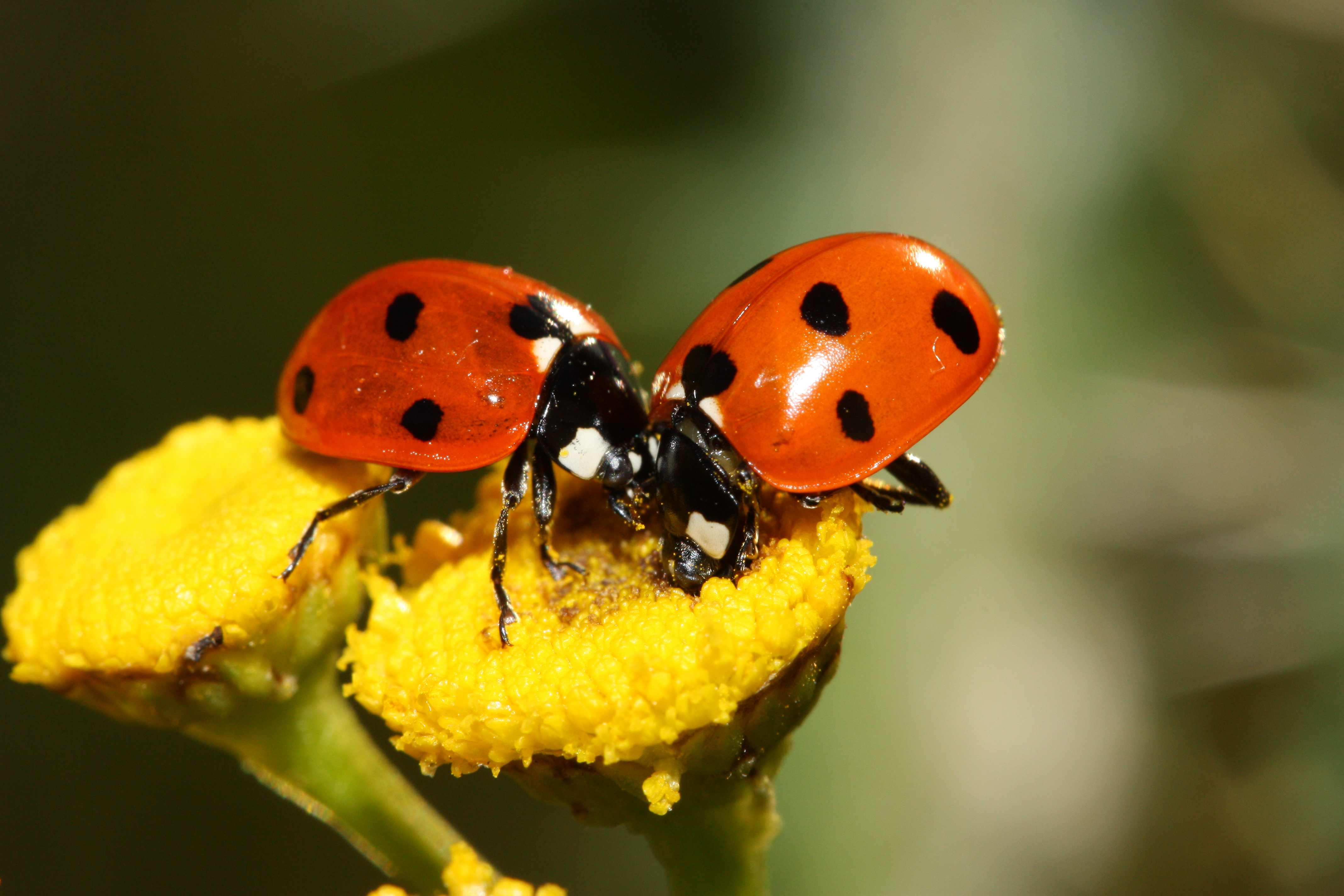 The one on the right seems to be stuck (or dead?) View in Original